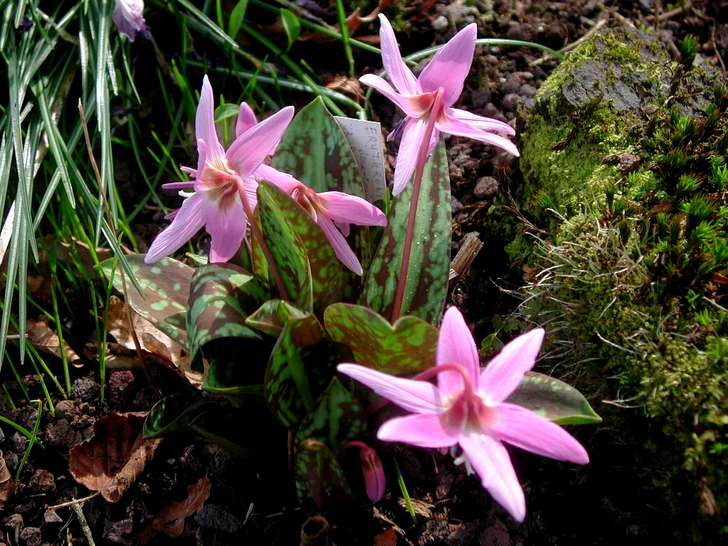 Erythronium dens-canis